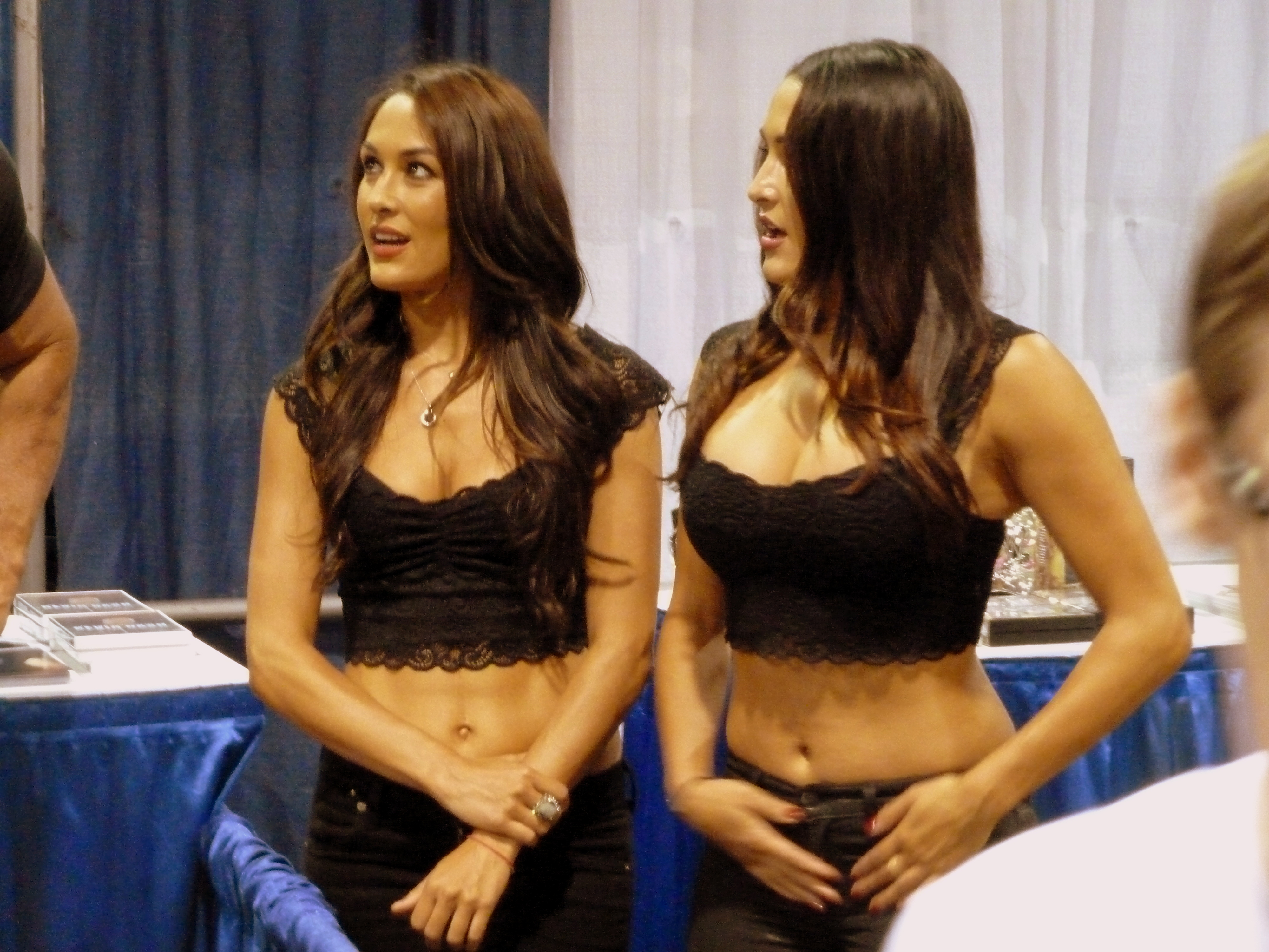 Better known as The Bella Twins in WWE